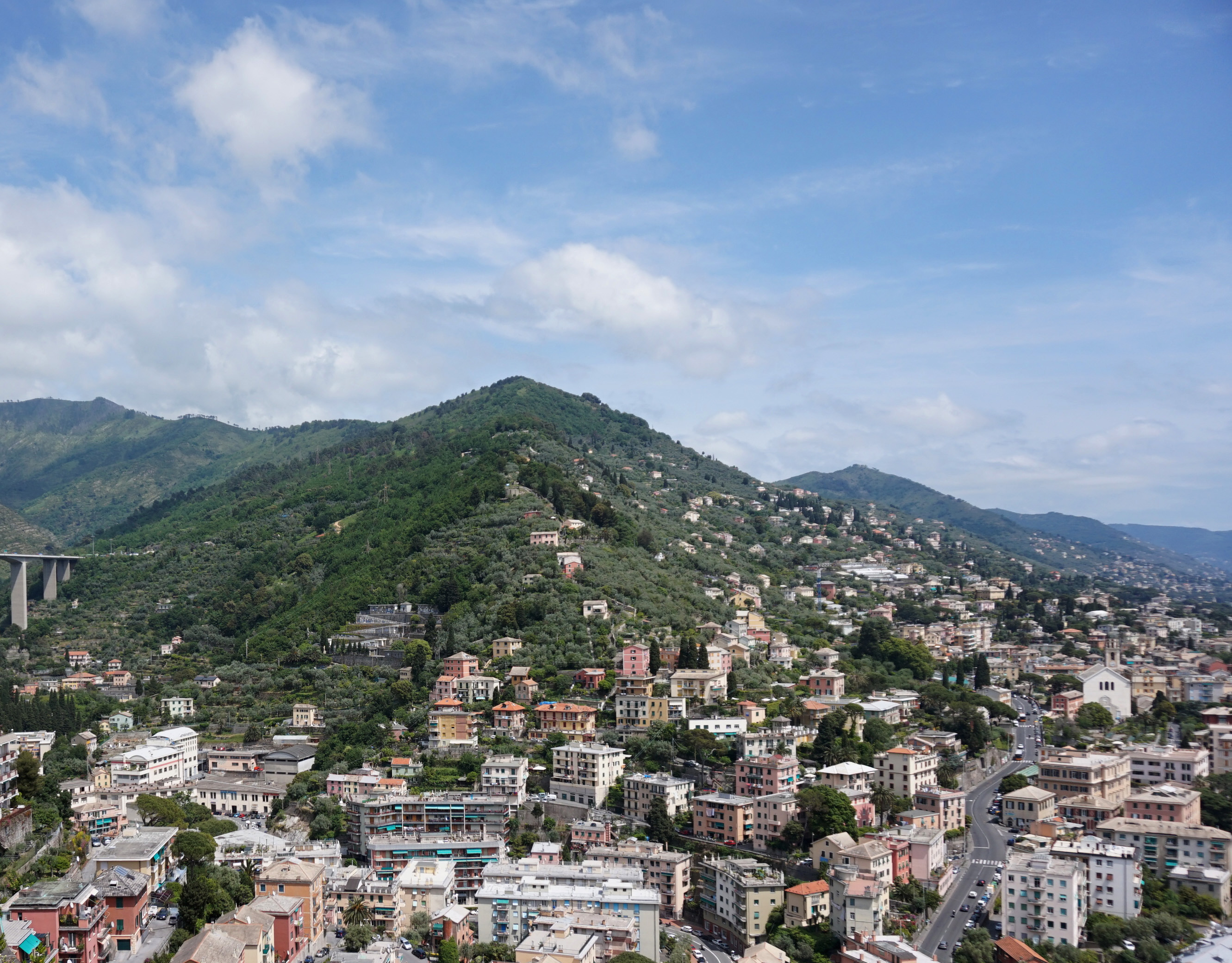 Monte Giugo and Nervi.This photograph was taken with a Sony ILCE-5000